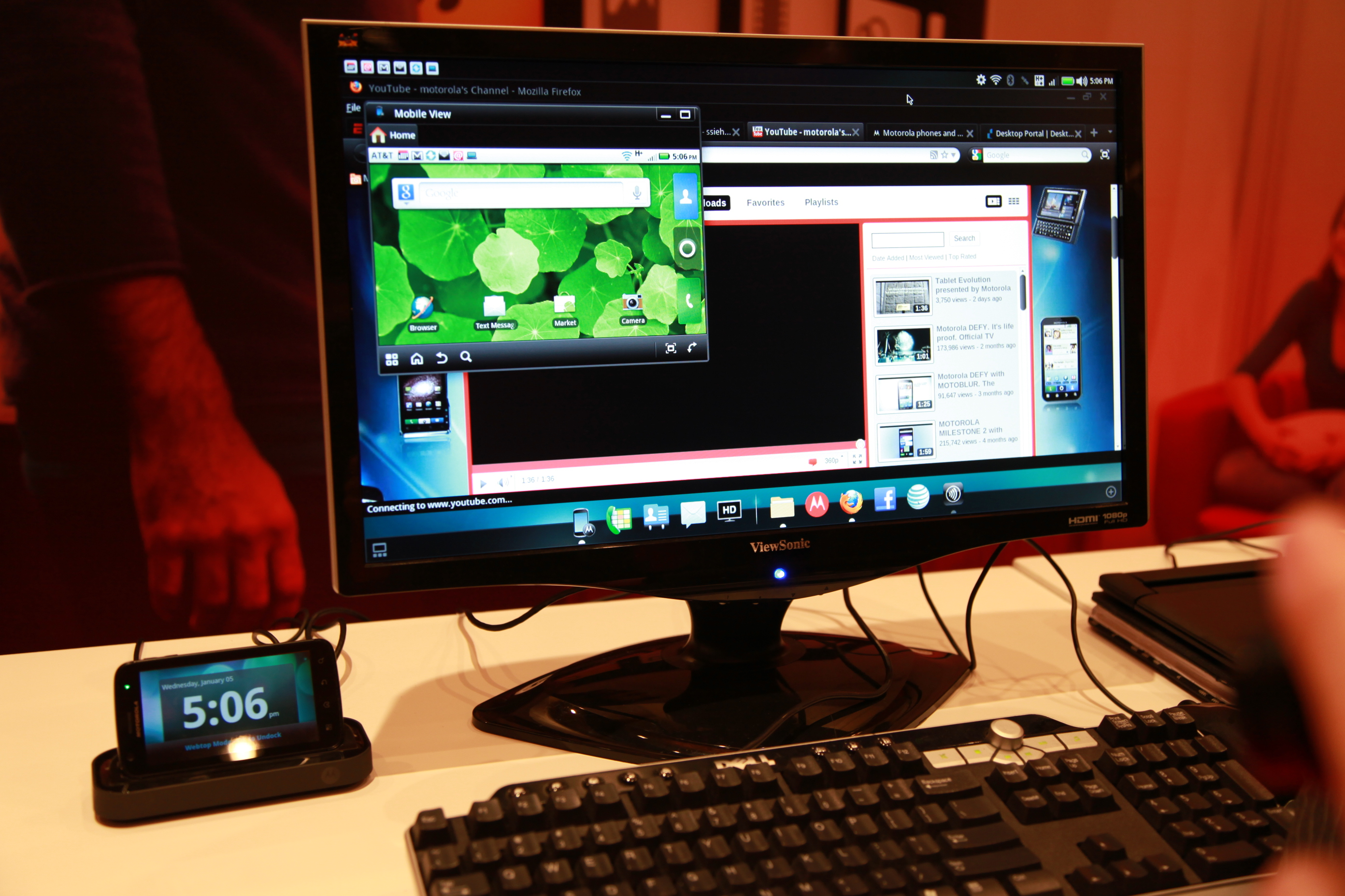 The Motorola Atrix 4G accessories "HD Multimedia Dock" in action at CES 2011. On Screen: The Webtop Mode.